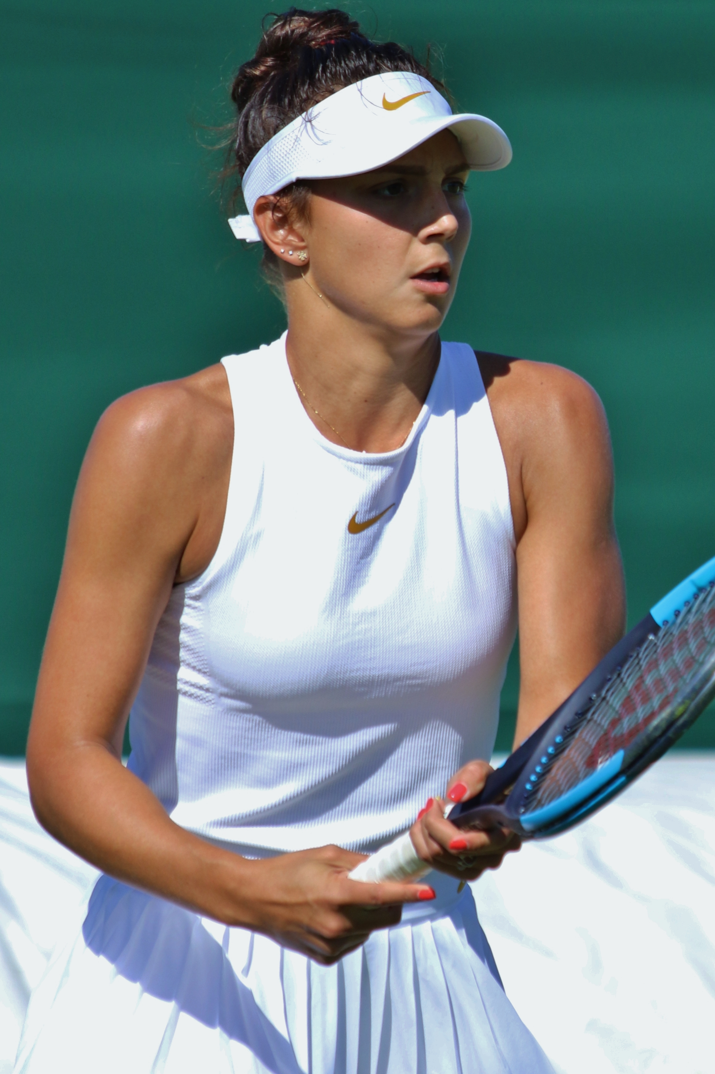 Cristian WMQ18 (22)